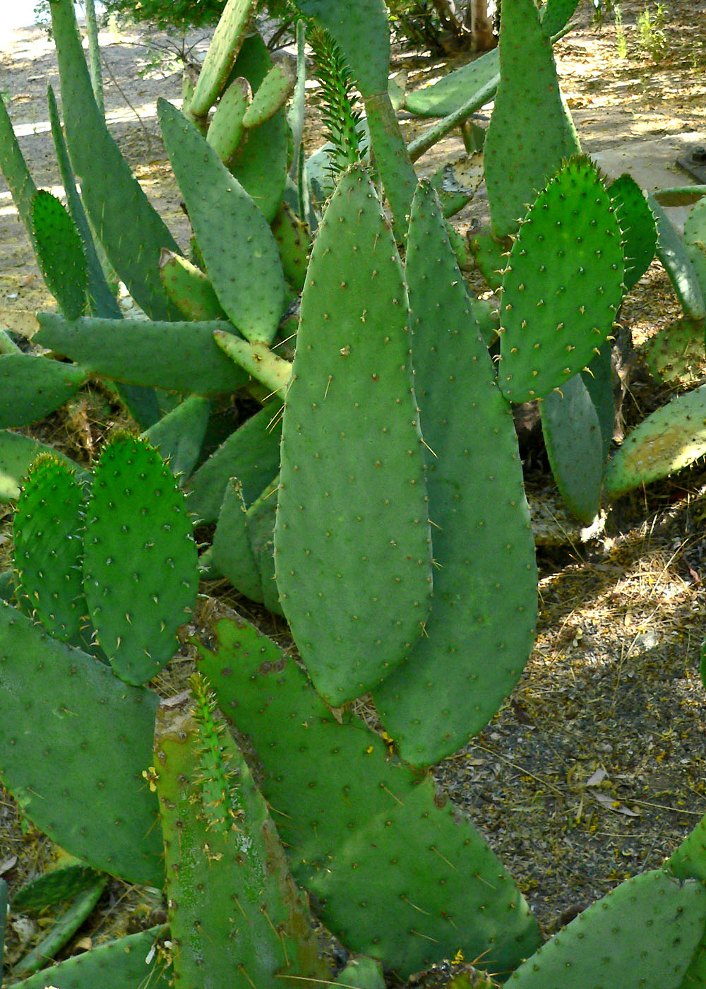 Opuntia engelmannii var. linguiformis at the Ethel M Botanical Cactus Garden, Las Vegas, Nevada